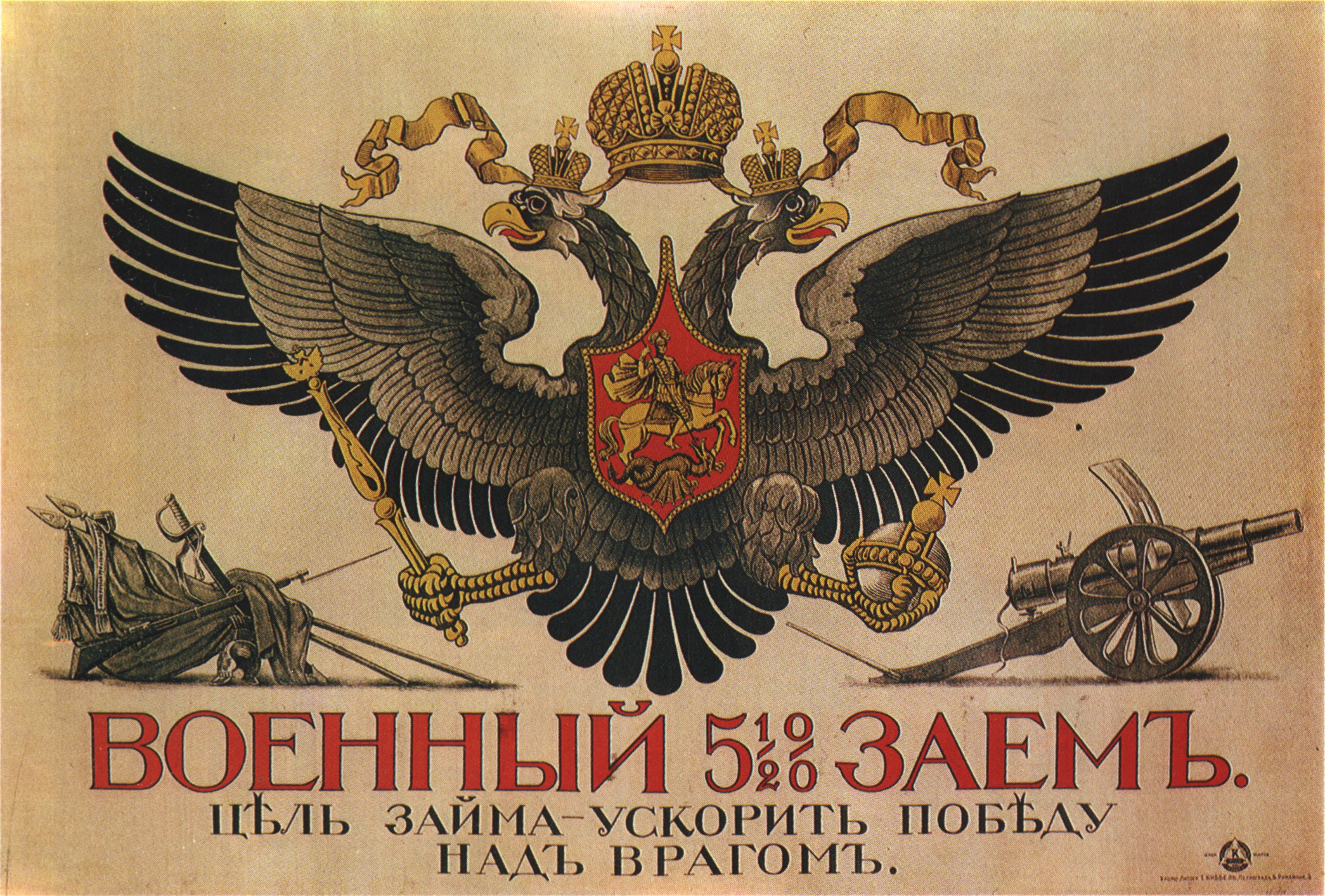 poster